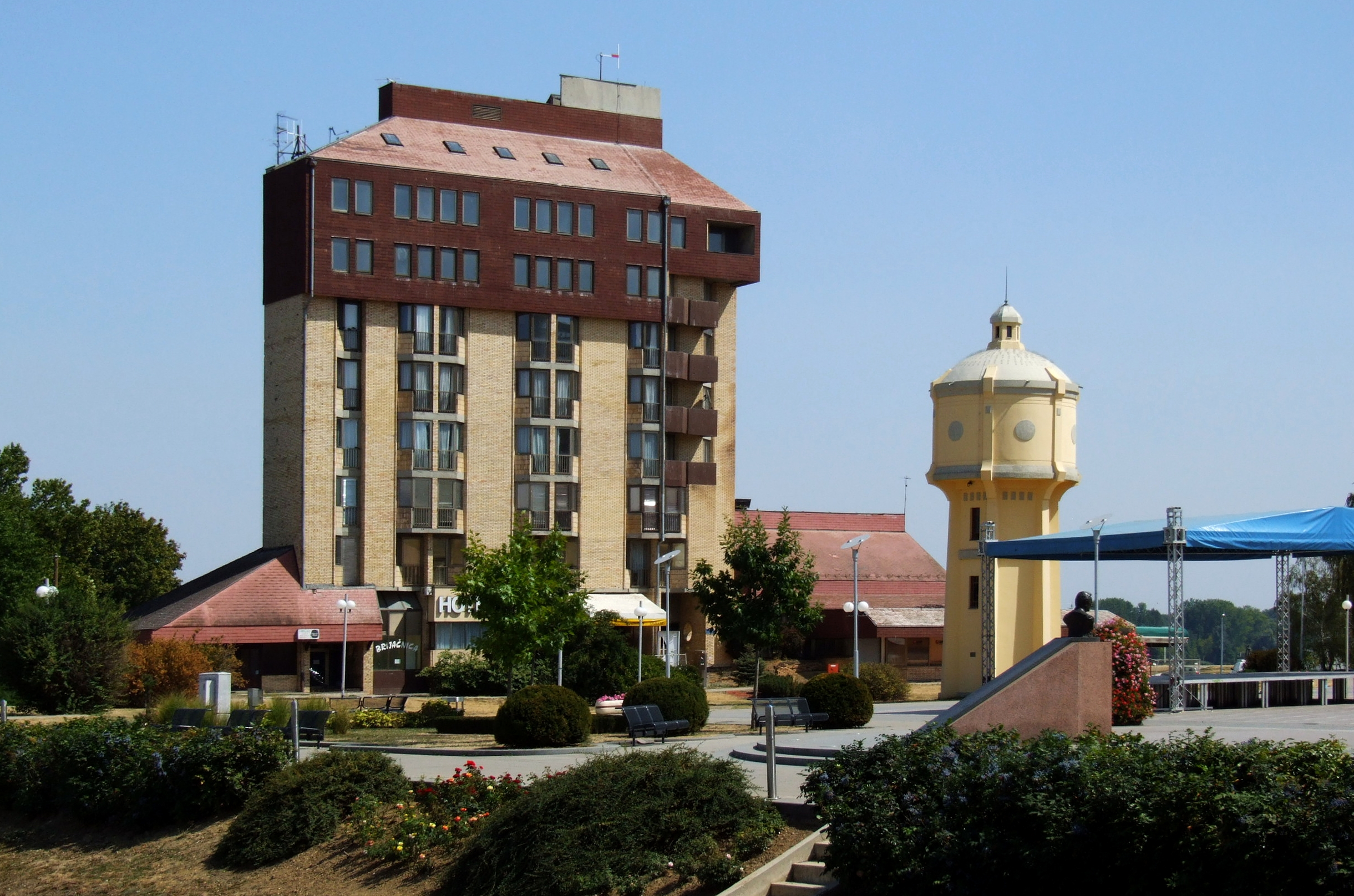 Franjo Tuđman Square, Vukovar